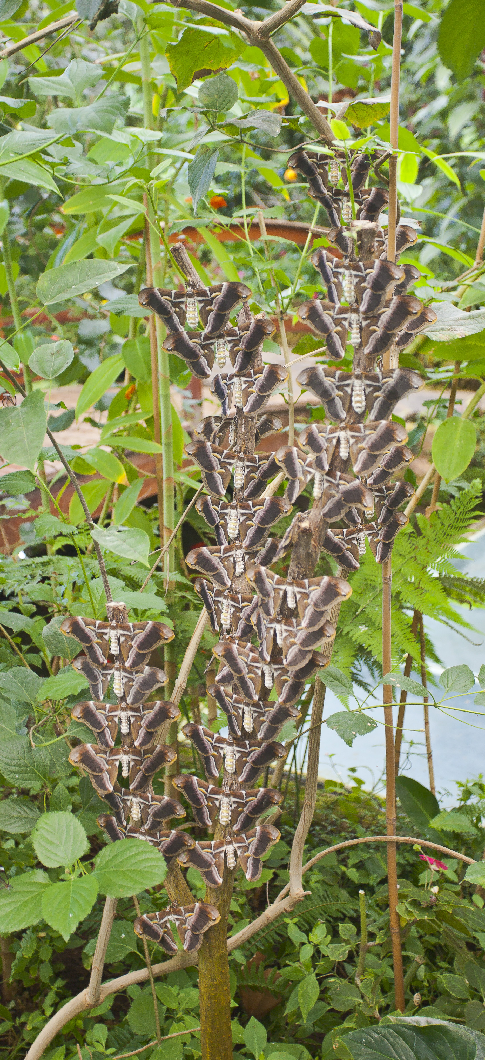 Ailanthus silkmoth (Samia cynthia), Butterfly zoo of Icod de los Vinos, Tenerife, Spain